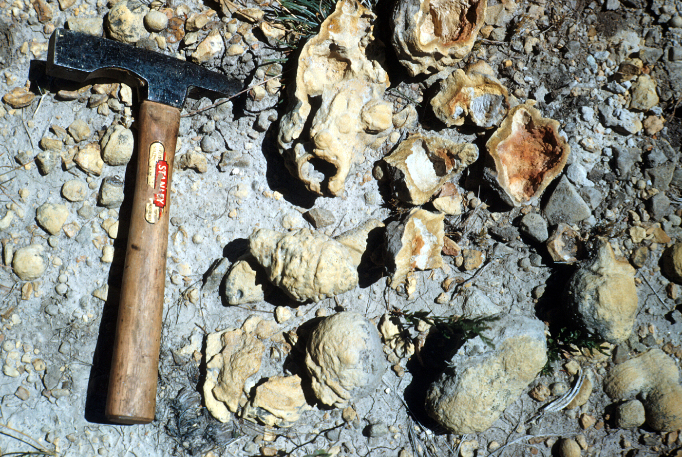 Jarosite (Close view) Jarosite concretions in Ludlow Formation, ranger station area, Slim Buttes. Harding County, South Dakota. 1953